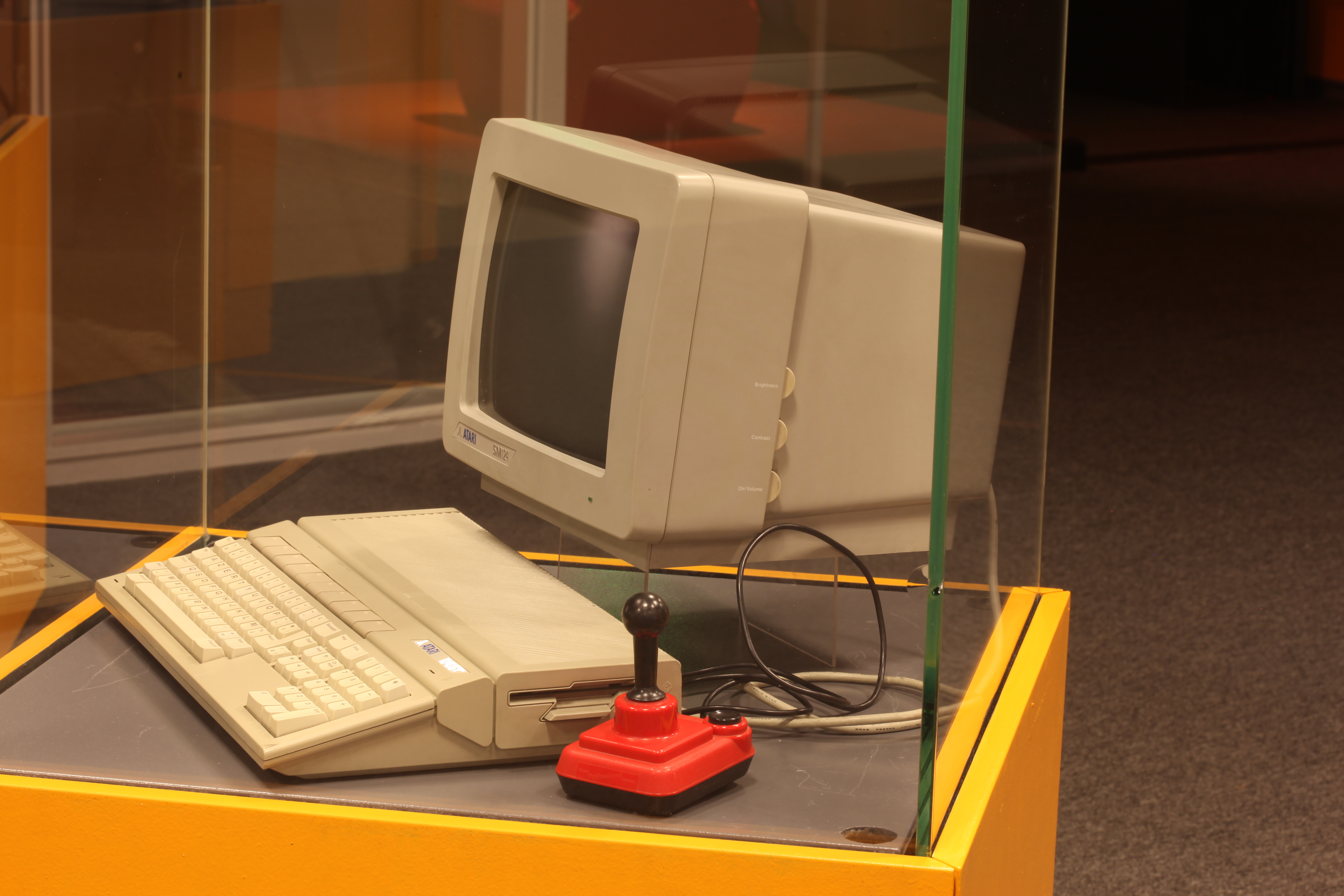 Atari 1040ST. On display at the Cité des Sciences et de l'Industrie